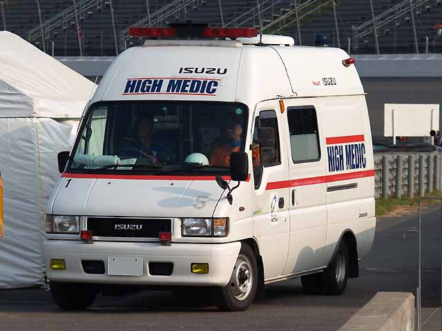 Isuzu Elf UT-based ambulance at Twin Ring Motegi, 2005.